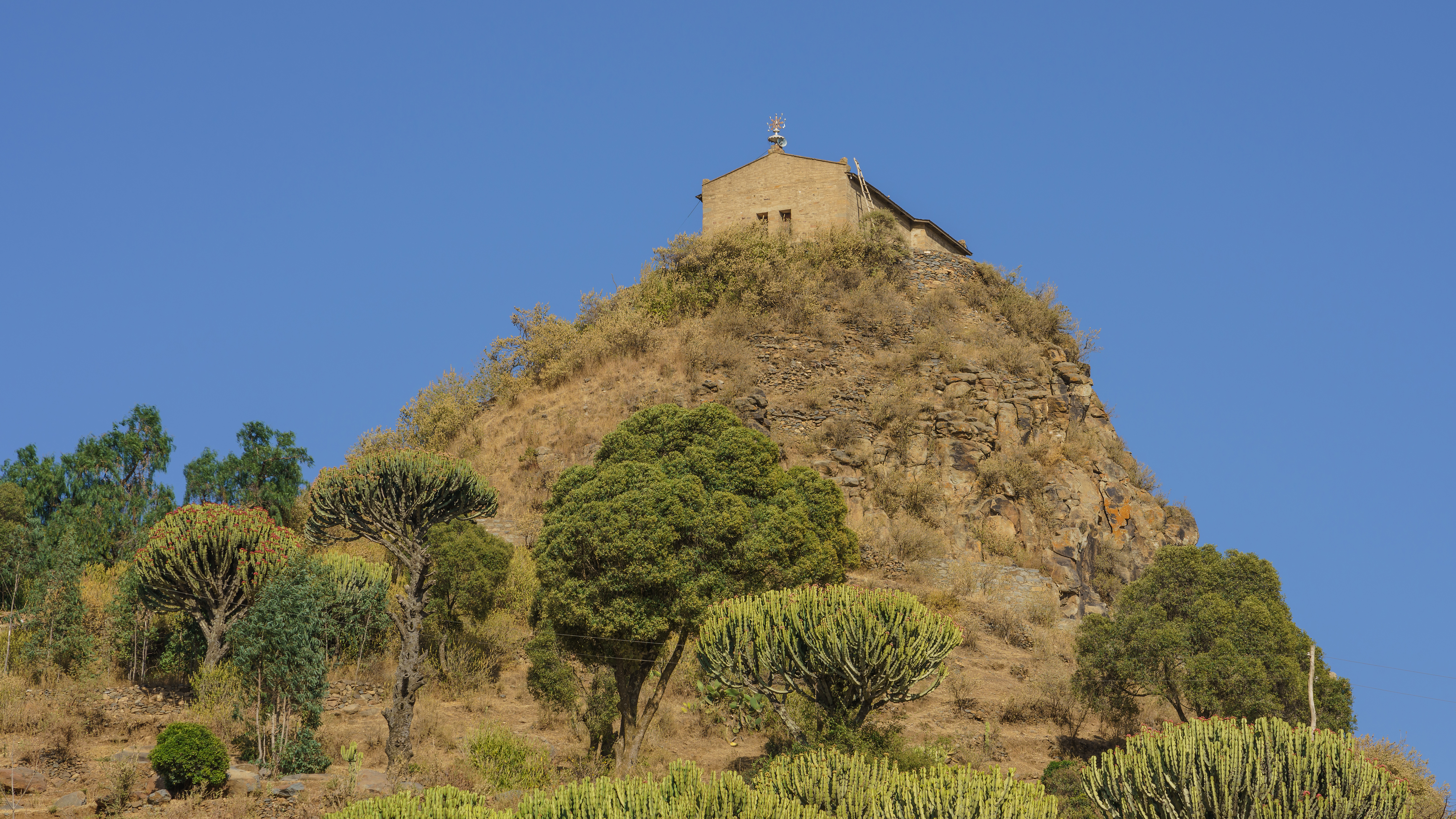 Abba Pentalewon Monastery in Aksum, Tigray Region, Ethiopia